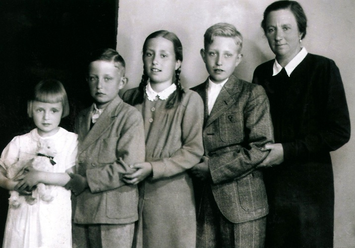 Isabel Alfonsa of Bourbon-Two Sicilies with her children